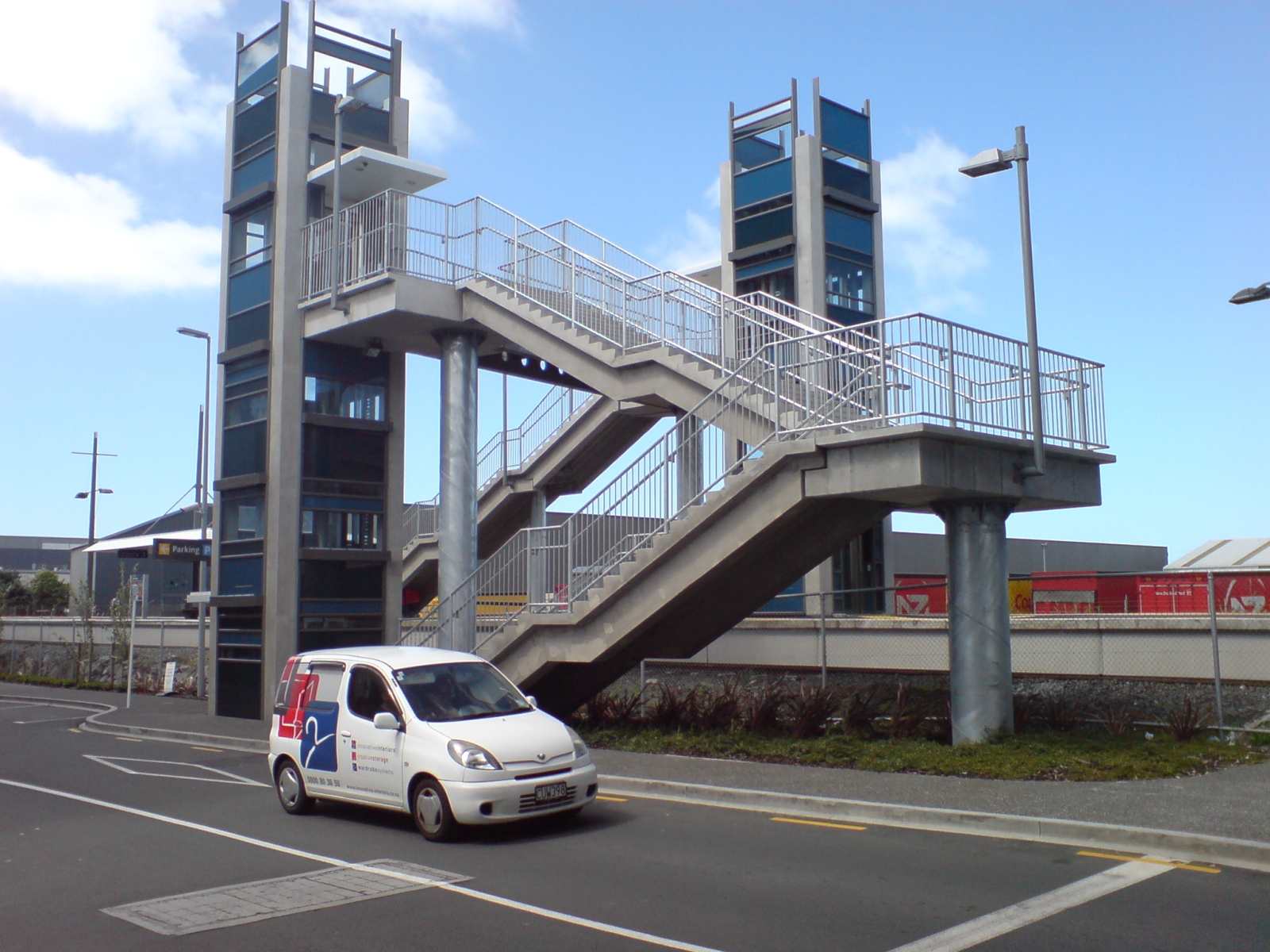 The new railway station at Sylvia Park (suburb and shopping centre) in Auckland City, New Zealand.